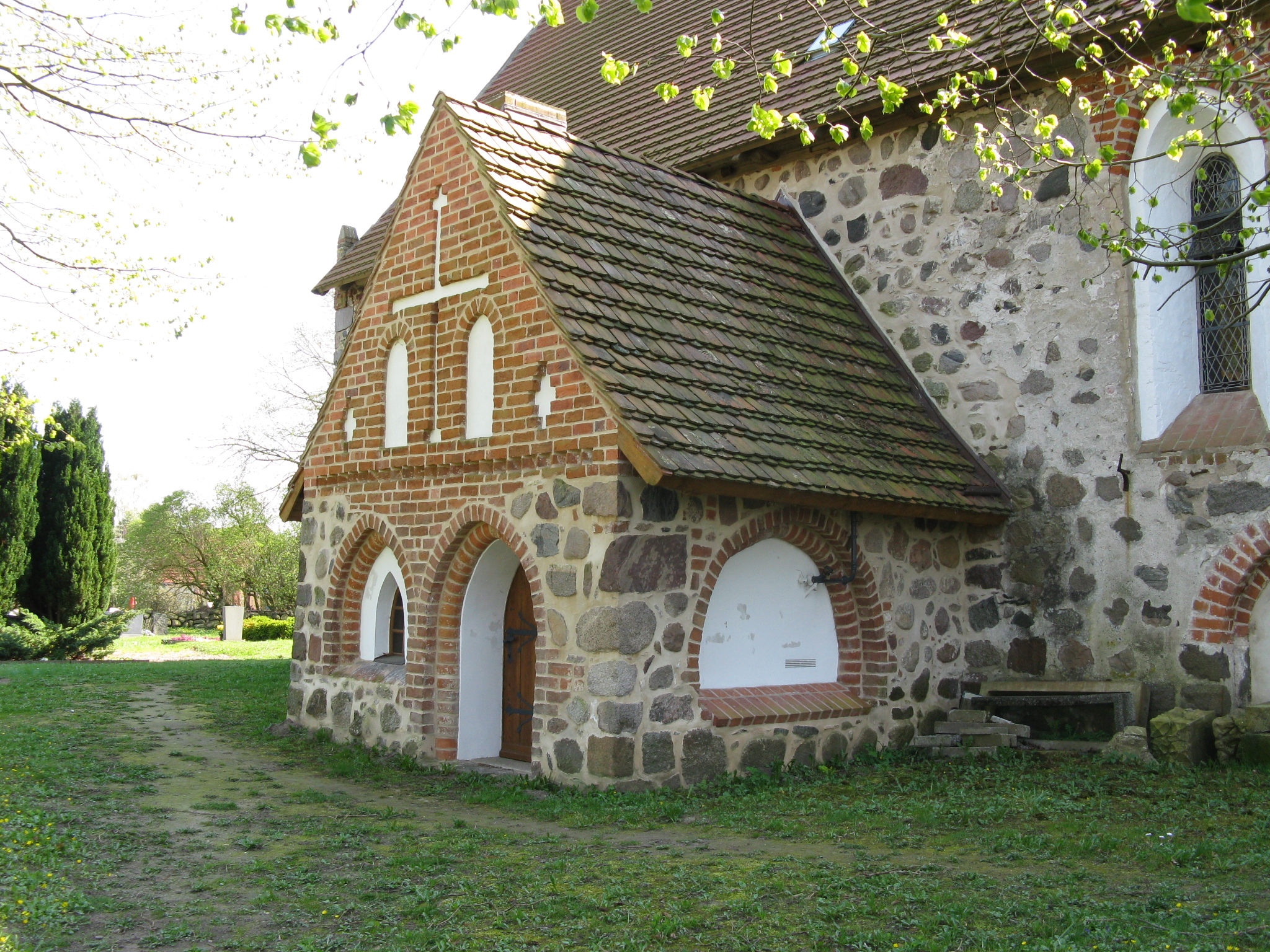 Church in Witzin, disctrict Parchim, Mecklenburg-Vorpommern, Germany